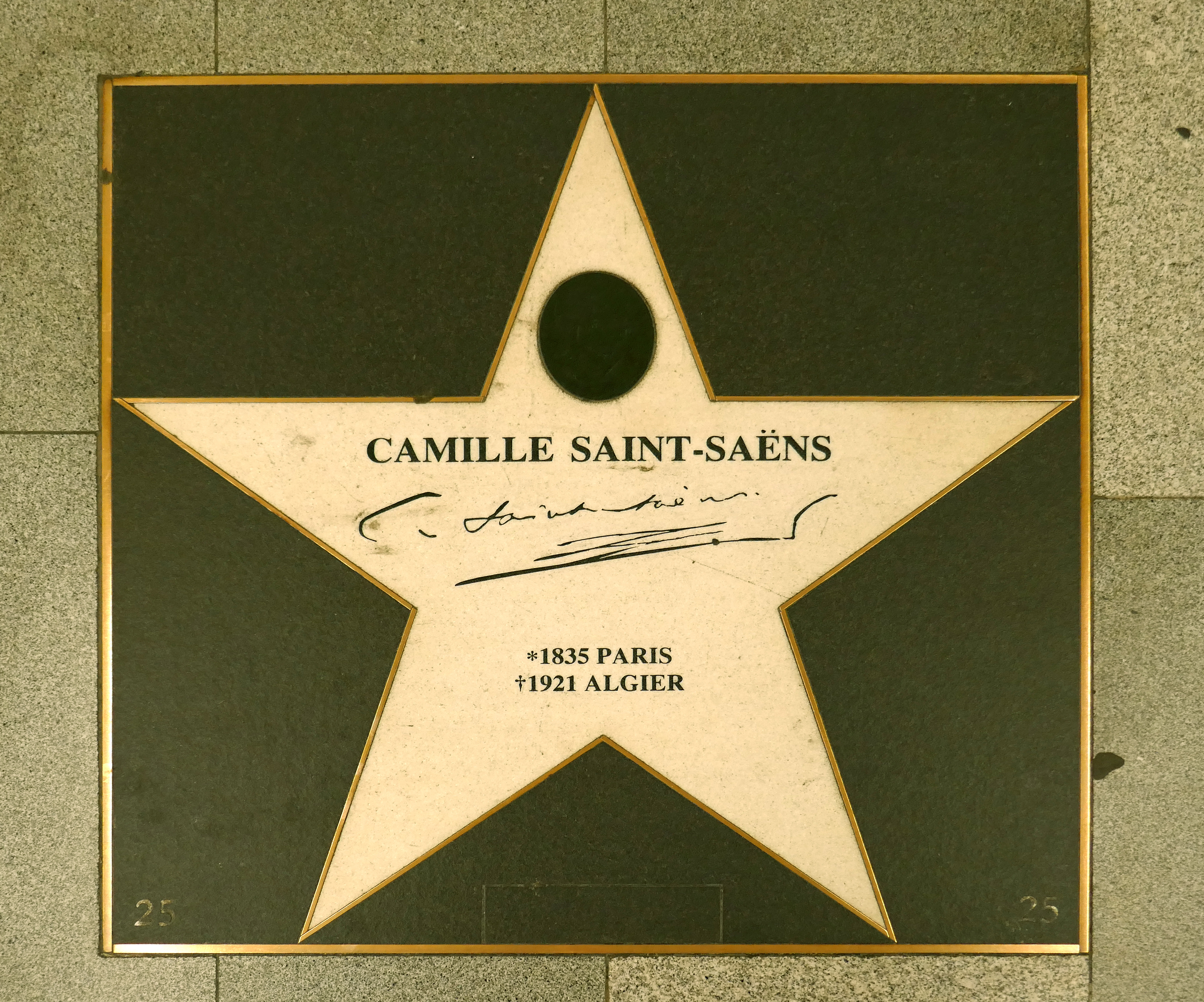 Walk of Fame Vienna Camille Saint-Saëns.